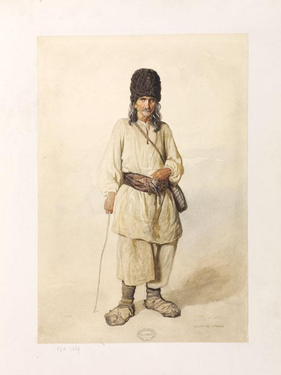 Théodore Valerio, Romanian shepherd from Șiștarovăț, 1869 FNAC PFH-8798 (63). Crayon et aquarelle sur papier, 44,6 cm x 30,5 cm Daté, signé en bas à droite : VALERIO 1851 SISTAROVECZ En dépôt à l’ENSBA depuis 1869 Beaux-Arts de Paris, photo Raphaël Caussimon ; distribution RMN-Grand Palais